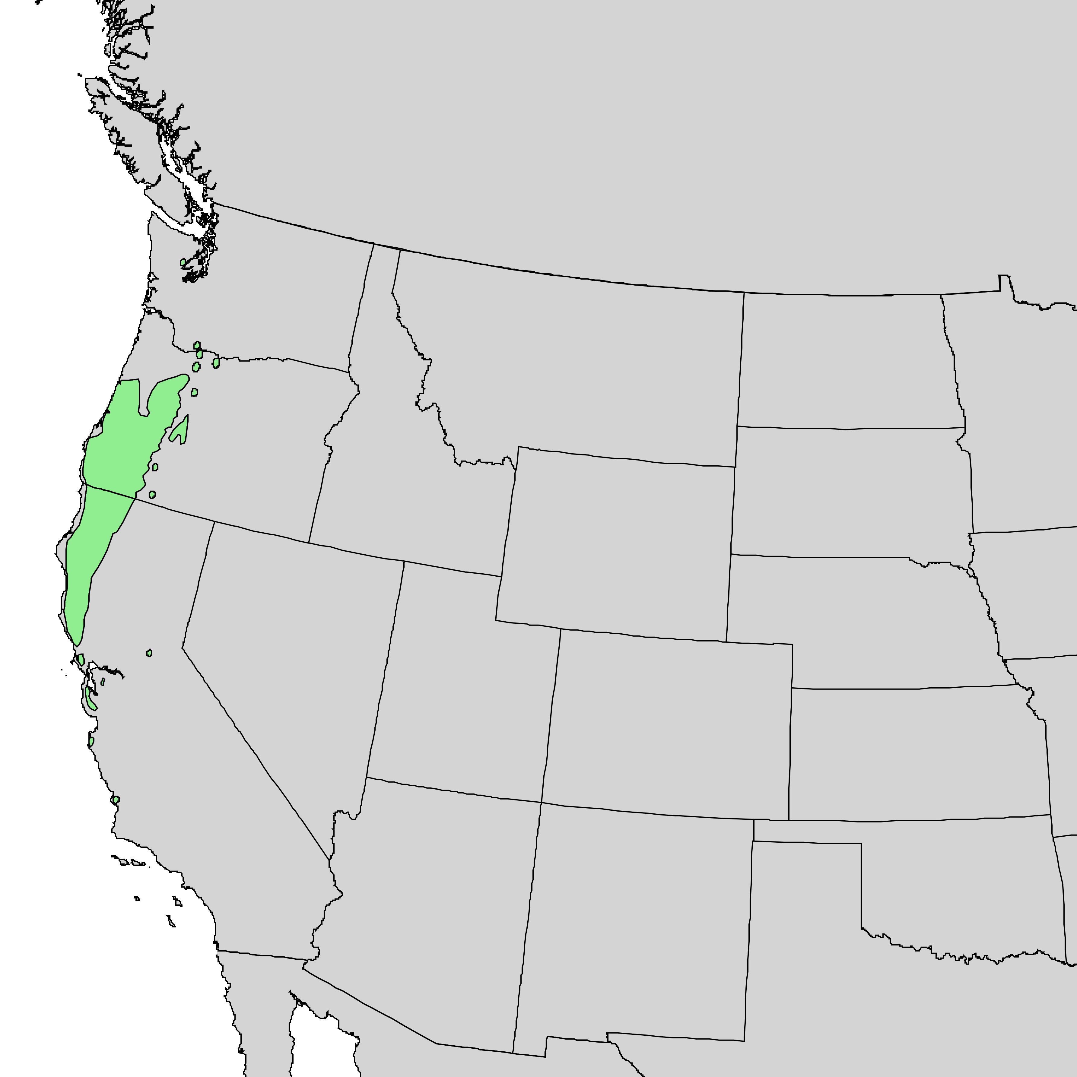 Natural distribution map for Chrysolepis chrysophylla (syn. Cananopsis chrysophylla)